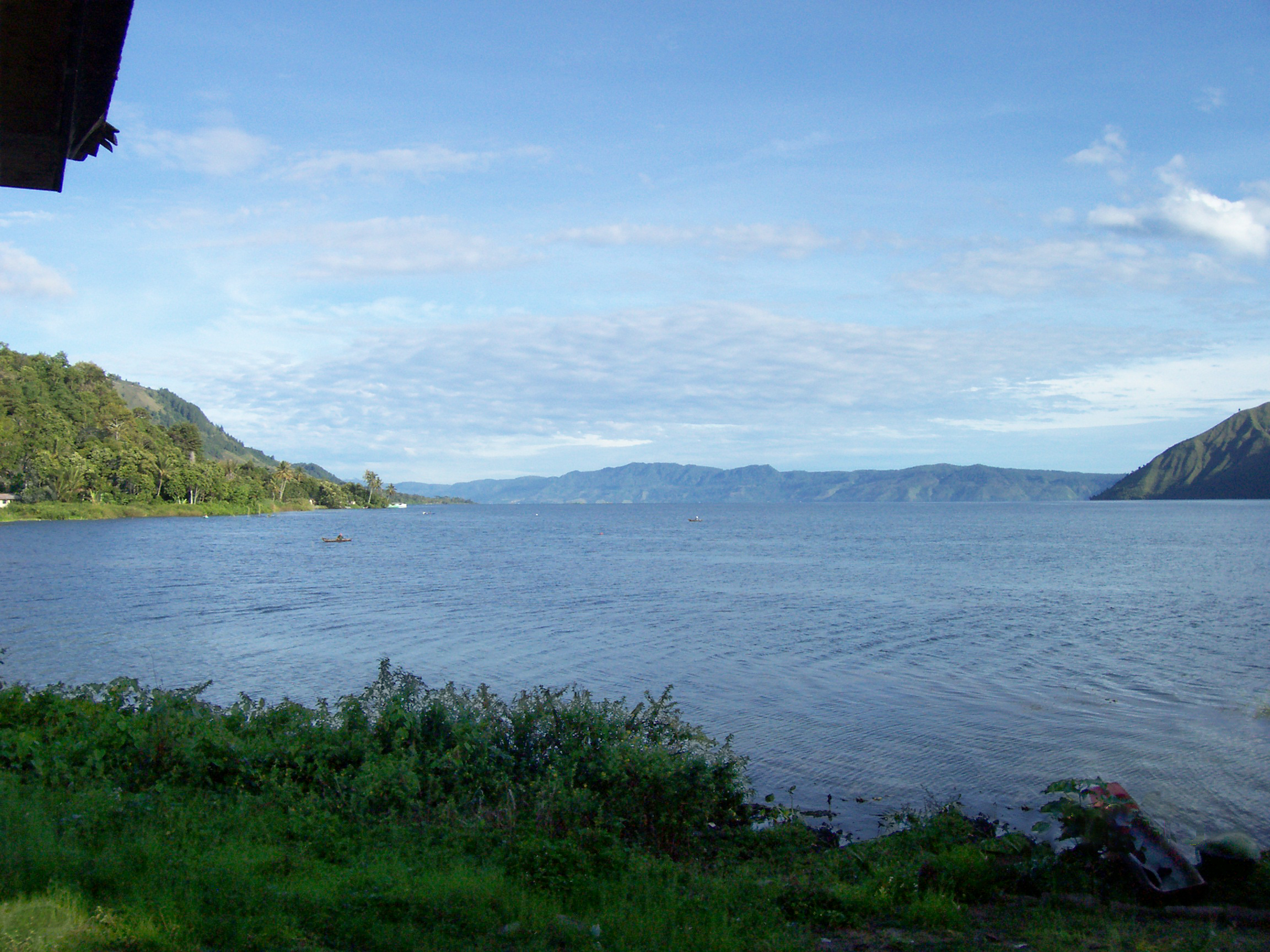 View of Lake Toba from Samosir Island